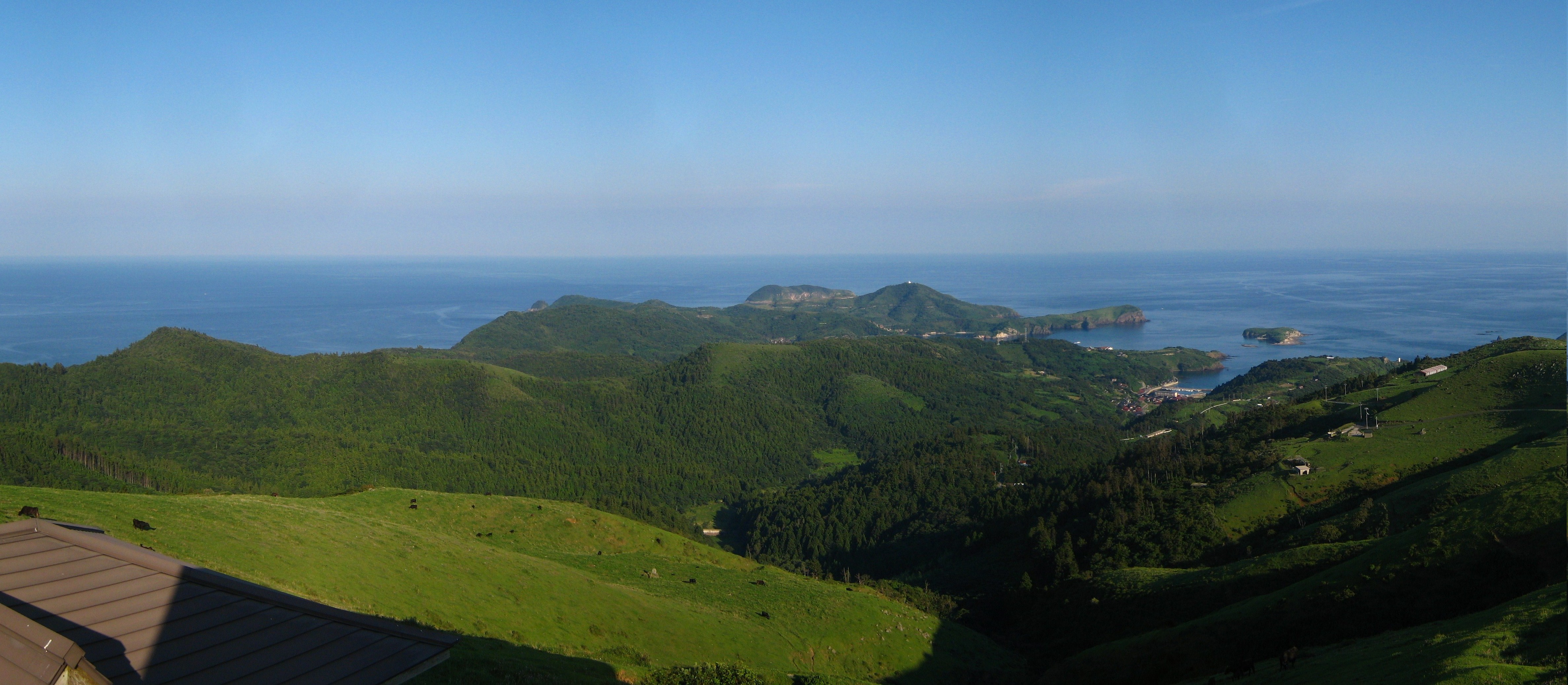 A picture taken from the top of Akahage-yama on Chibu. The most visible neighborhood is Nibu.